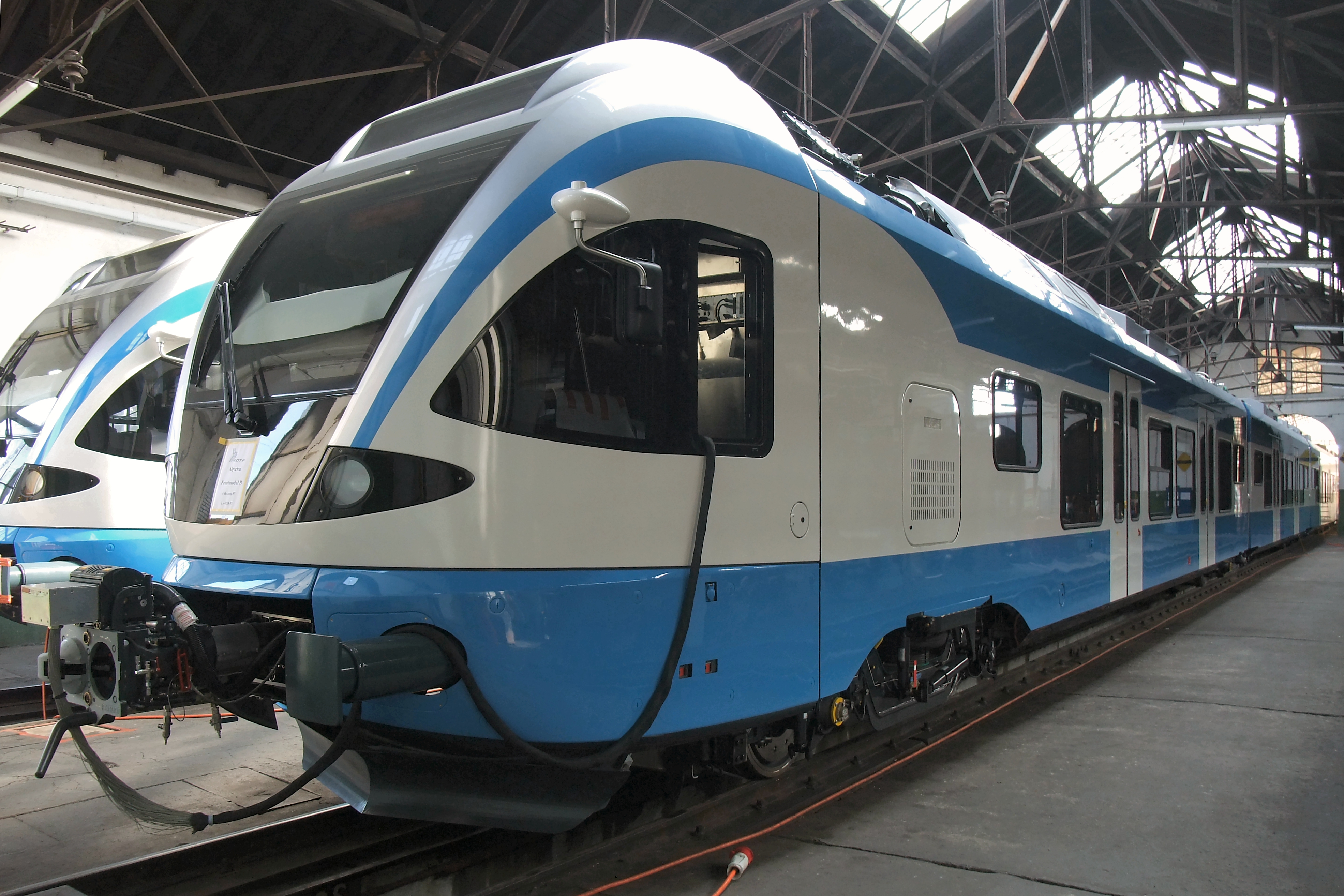 Stadler has outsourced a part of the production of new commuter trains for Algiers to an old engine shed in Romanshorn. The trains are wired here. In this shed also houses the museum Locorama. The curious thing is that I go to a museum, and then I take a photo of brand new trains. Romanshorn, Switzerland, Apr 25, 2010. See where this picture was taken. [?]